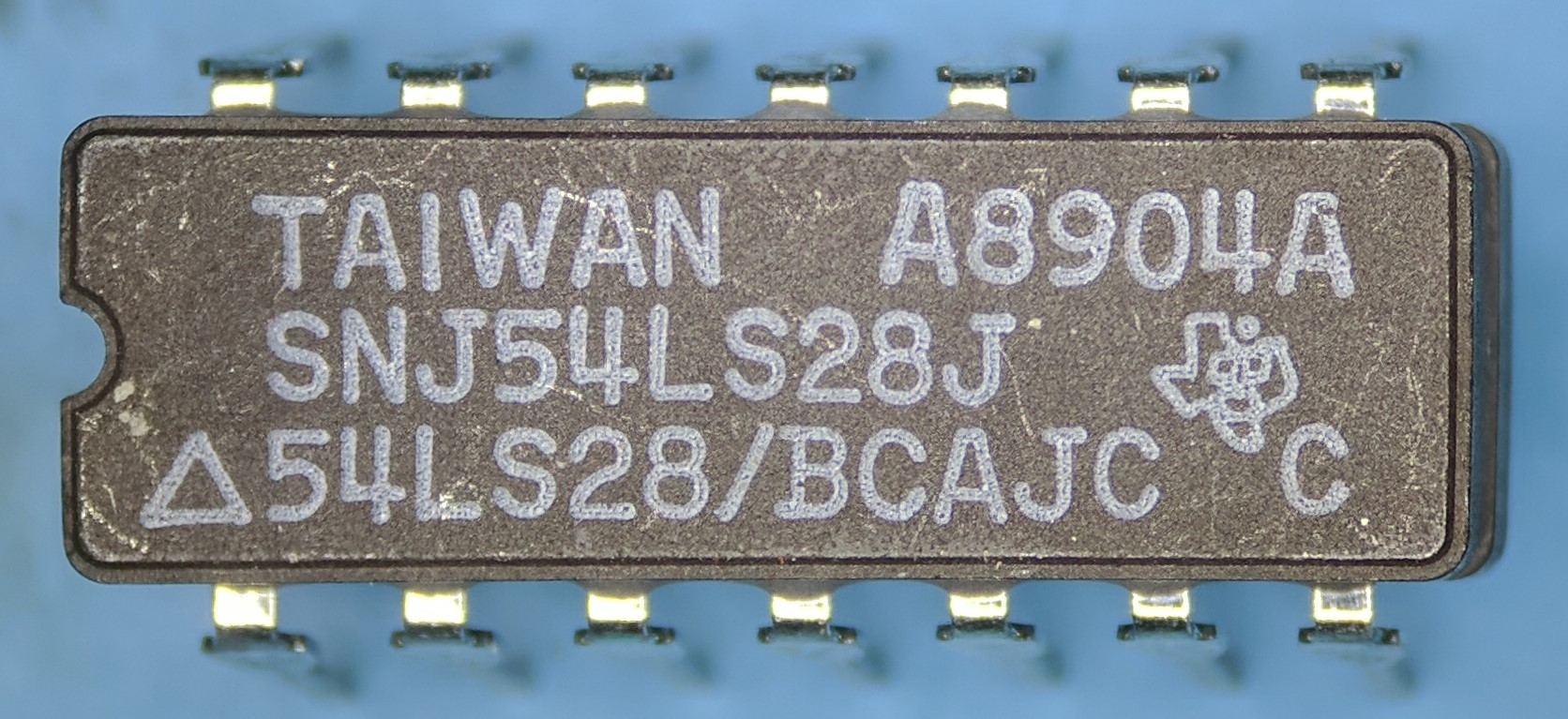 Package top of a Texas Instruments 54LS28 chip, datecode 8904.